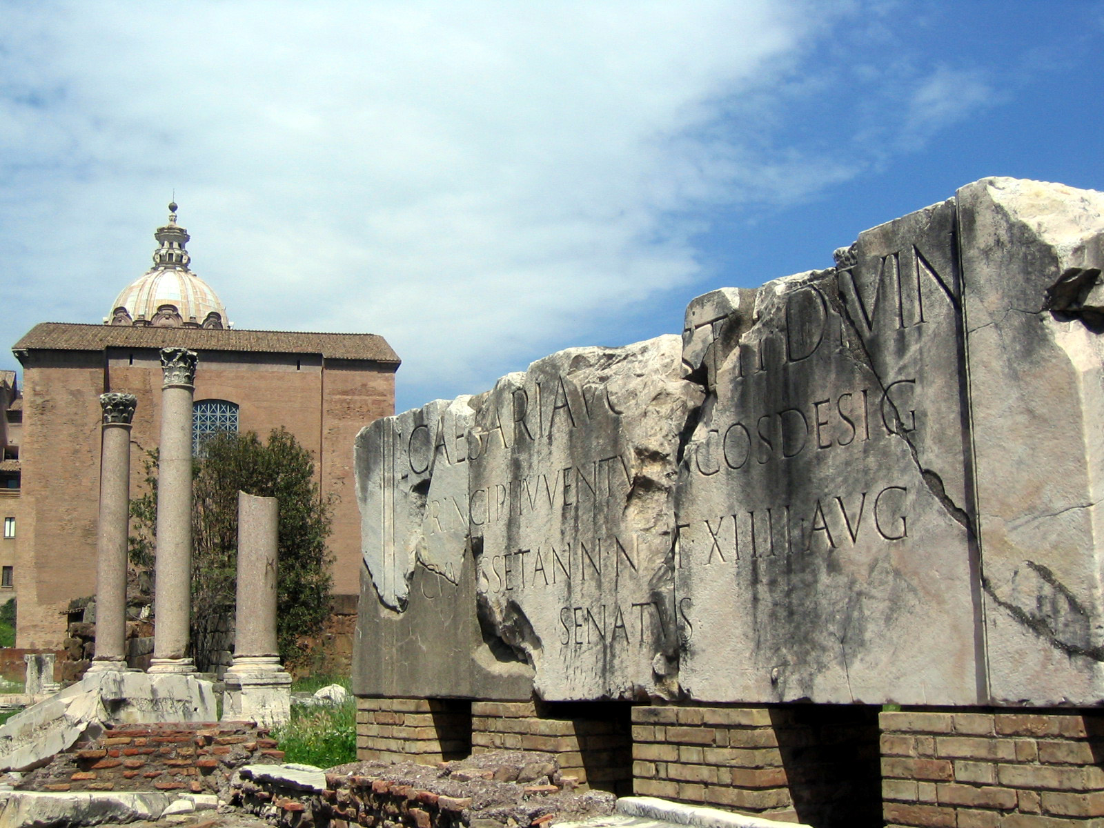 The emperor Augustus built a two-storey portico along the front of the older Basilica Aemilia, and dedicated it in the names of his grandsons Caius Caesar and Lucius Caesar, the inscription to whom occupies most of the foreground. In the background to left, the Curia Julia and the dome of SS. Luca e Martina. CIL VI 36908.